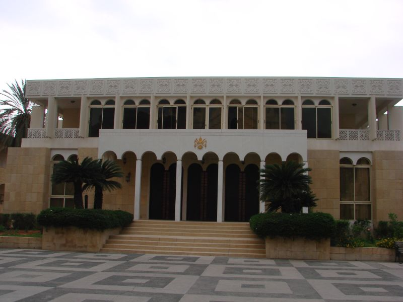 Main building of The Catholicossate of the Great House of Cilicia, seat of the Catholicos of Cilicia of the Armenian Apostolic Church in Antelias, Lebanon.